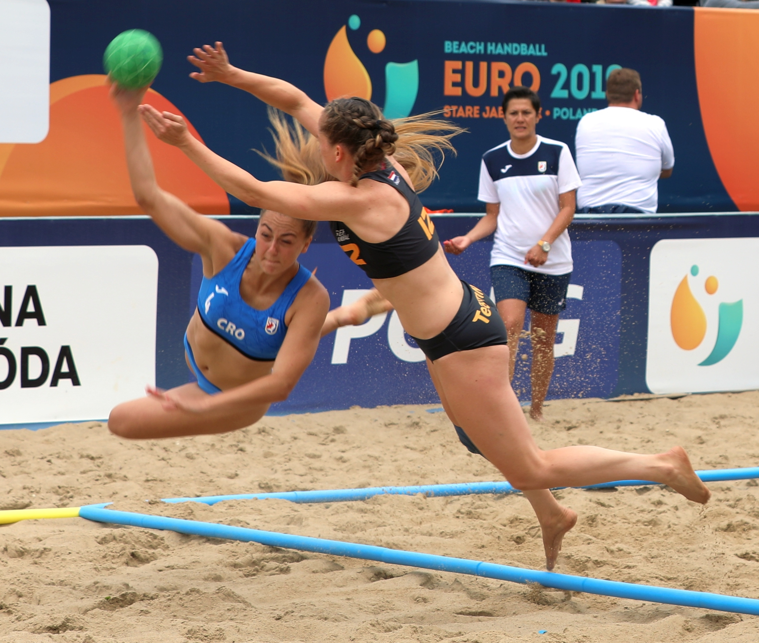 Beach handball Euro; Day 6: 7 July 2019 – Women's Bronze Medal Match – Croatia-Netherlands 0:2 (14:23, 20:22)